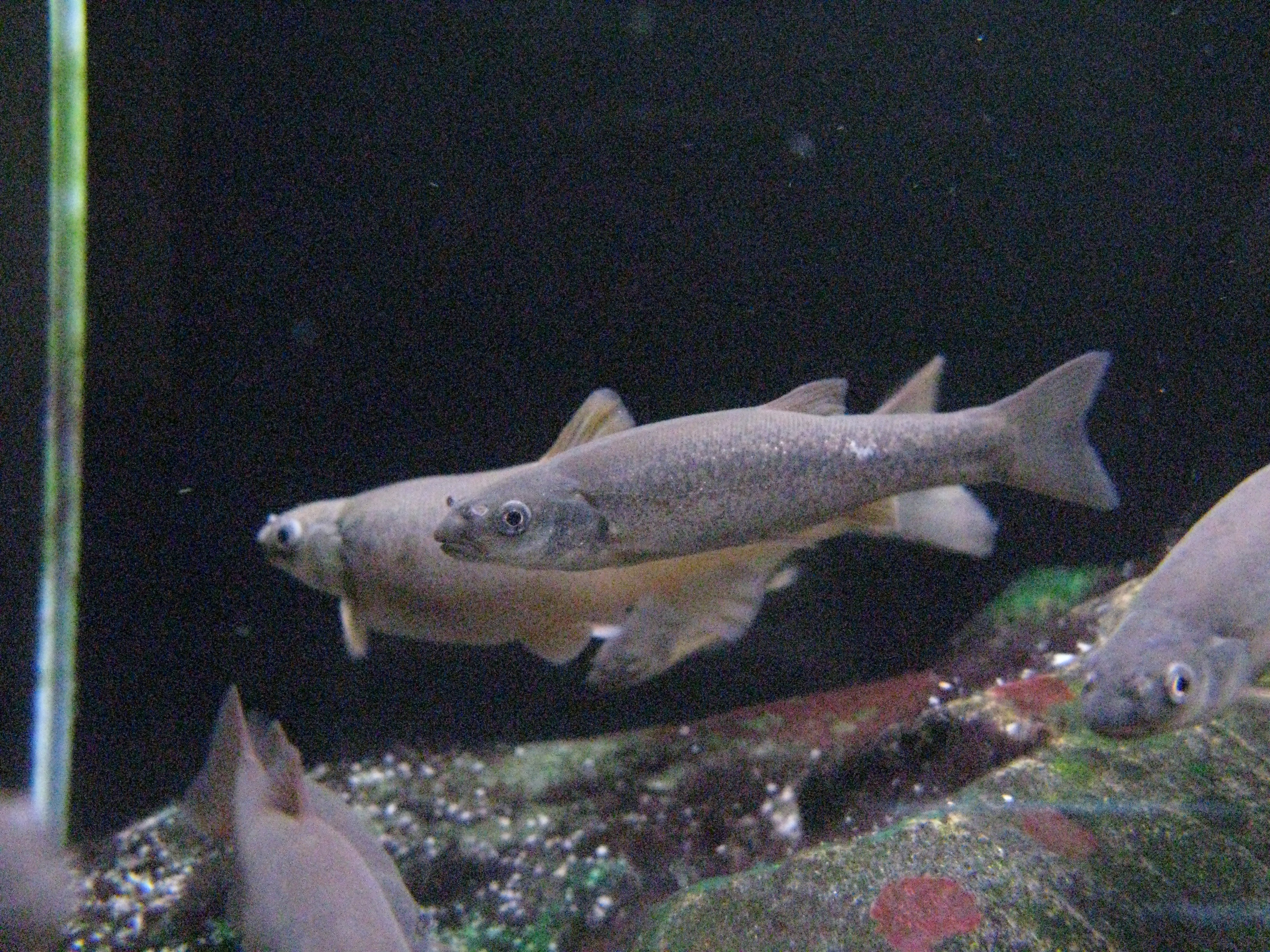 Scientific name Phoxinus oxycephalus jouyi